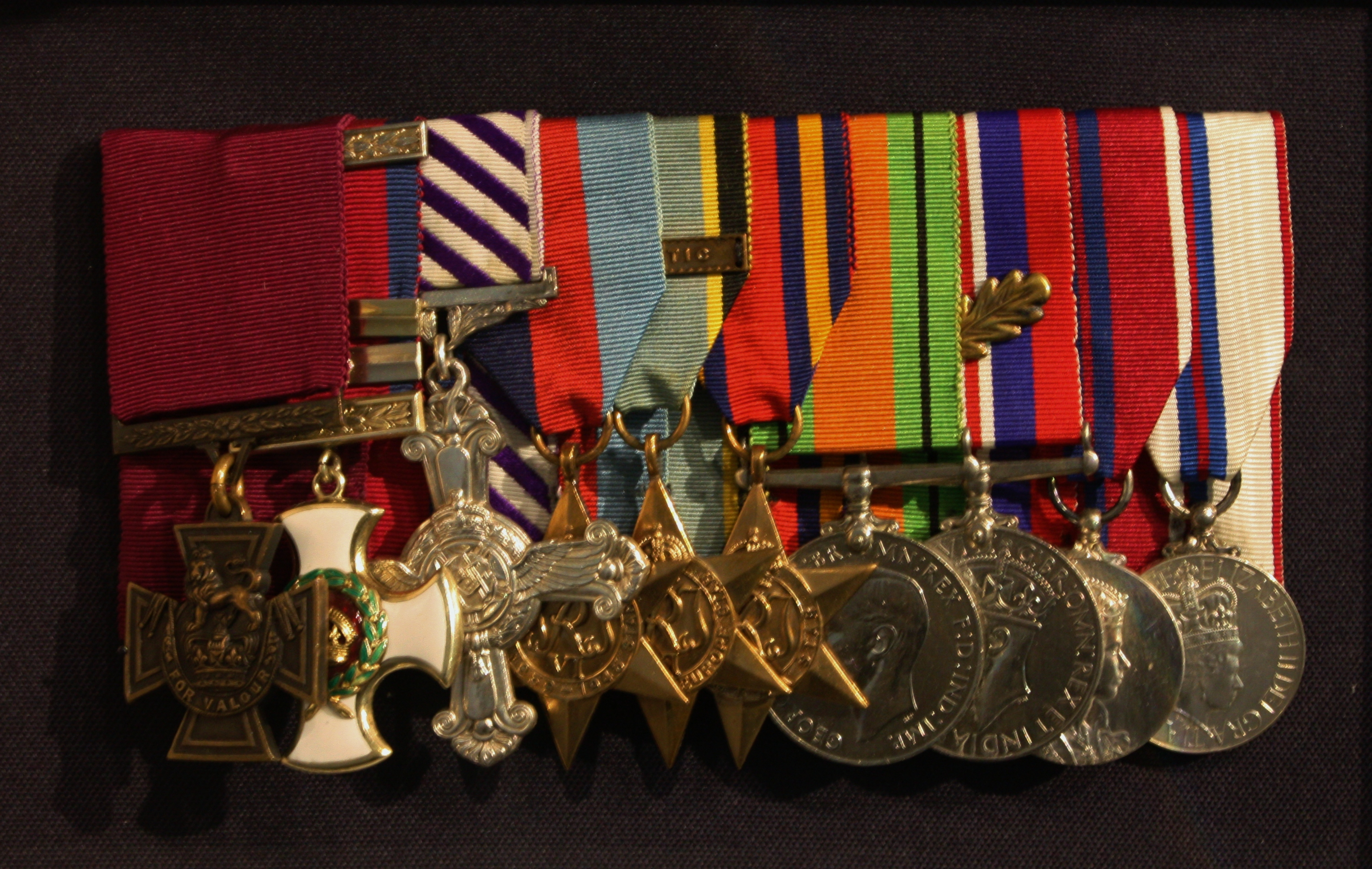 The Medal set of Group Captain Leonard Cheshire, VC, OM, DSO and two bars, DFC, Baron Cheshire of Woodhall in the County of Lincolnshire (1917-1992) on display at the Imperial War Museum in London. It includes the Victoria Cross, the highest award for valour in the British honours system. Left to Right: Victoria Cross, Distinguished Service Order and two bars, Distinguished Flying Cross, 1939-45 Star, Air Crew Europe Star with Atlantic clasp, Burma Star, Defence Medal, War Medal 1939-45 with Mentioned in Dispatches insignia, Queen Elizabeth II Coronation Medal, Queen Elizabeth II Silver Jubilee Medal. Absent in the photo is the insignia of the Order of Merit which is worn suspended from the neck.